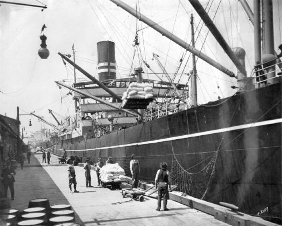 Workers loading sacks of flour by crane onto the vessel SS "Africa Maru", circa. 1926. Item number: PA096.002. Vancouver Maritime Museum